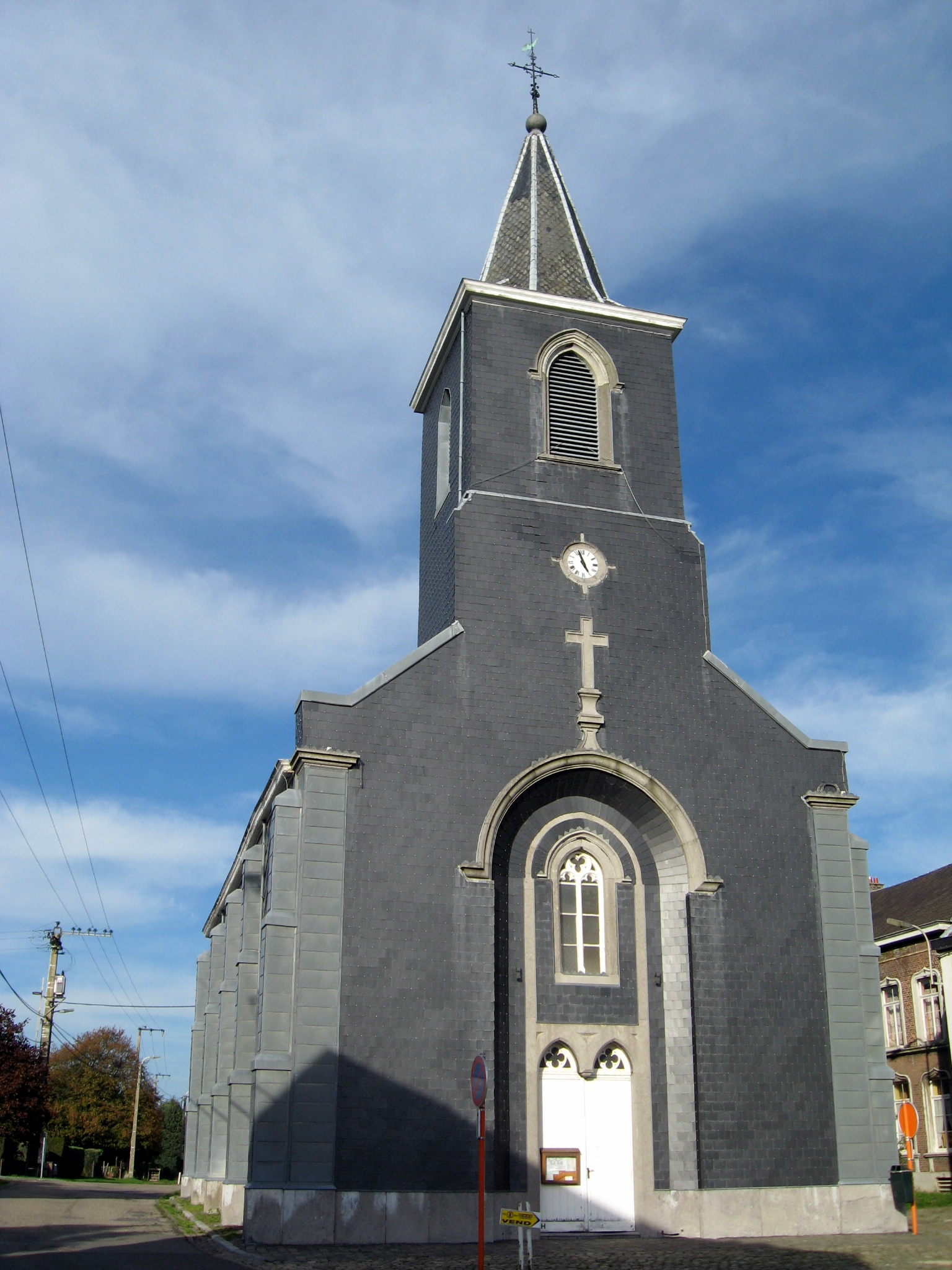 Church of Saint John the Baptiser in Mont, Dison, Liège, Belgium